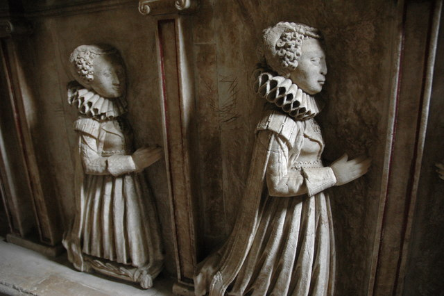 Monument in Sapperton Church Carvings of two of the daughters of Sir Henry and Lady Anne Poole who along with their other five siblings surround the monument to their parents in Sapperton Church.